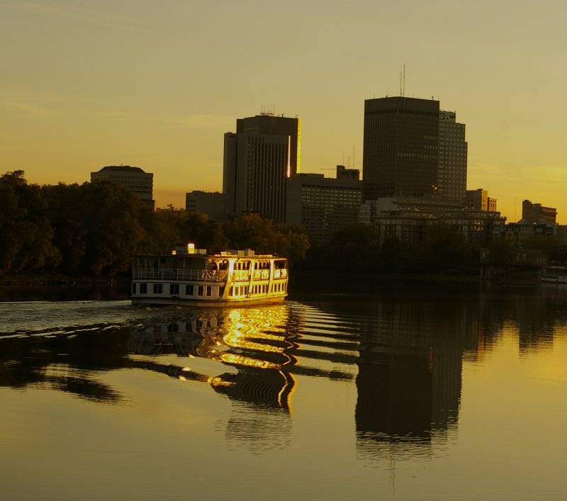 Winnipeg River, sept 19 2007 red river skyline shot with river rouge in it...